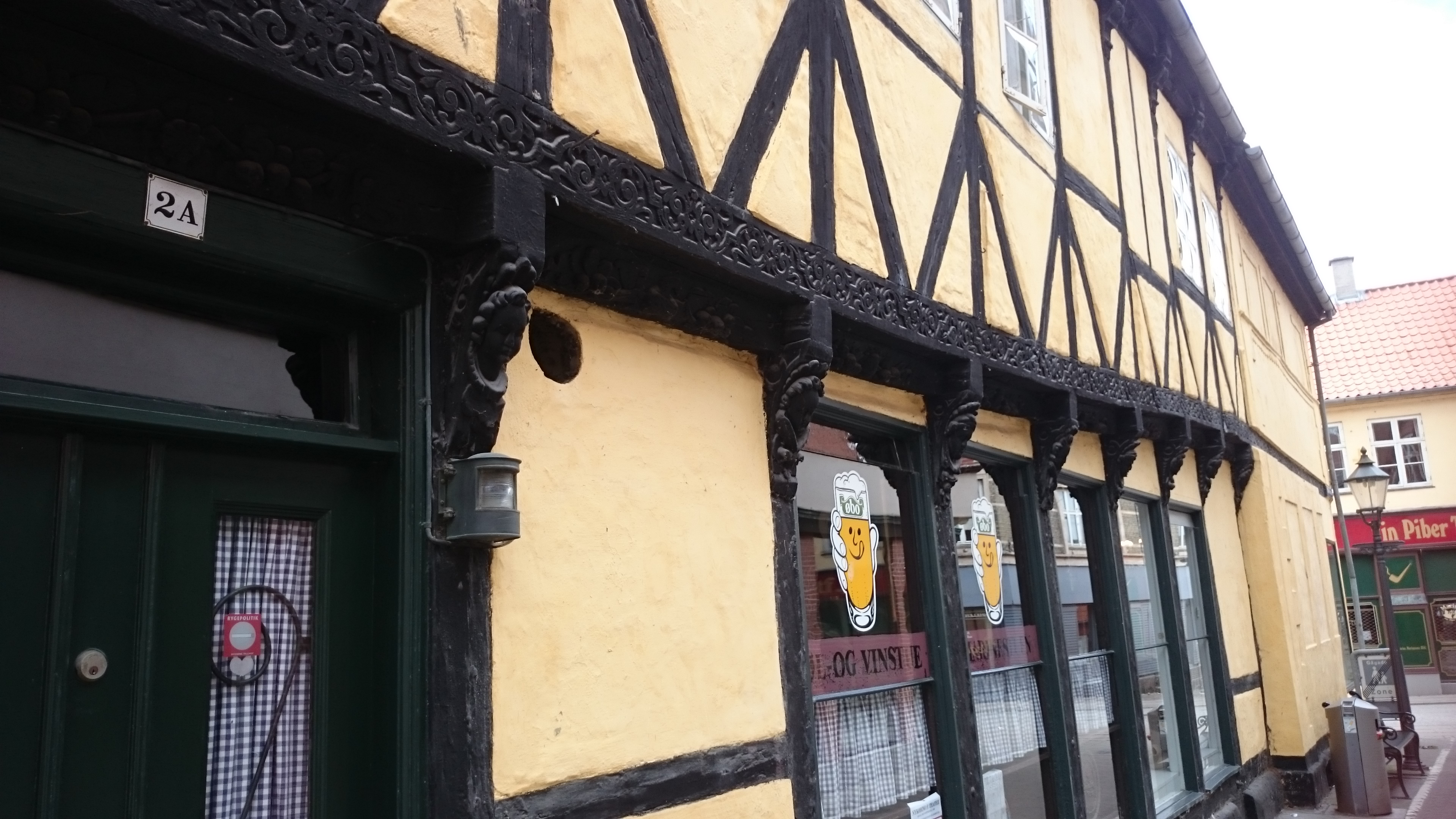 Detail on Ritmestergården in Nykøbing Falster. Dated 1630.